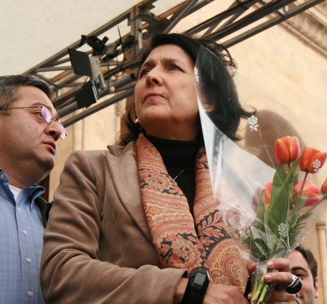 Some other leaders: Salome Zurabishvili holding tulips (symbol of the April 9 tragedy of 1989) & David Usupashvili